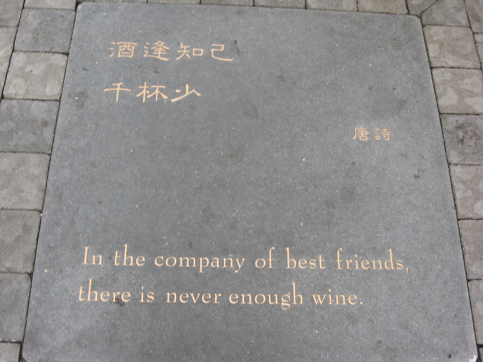 In the company of best friends, there is never enough wine plaque in San Francisco Chinatown's Jack Kerouac Alley.